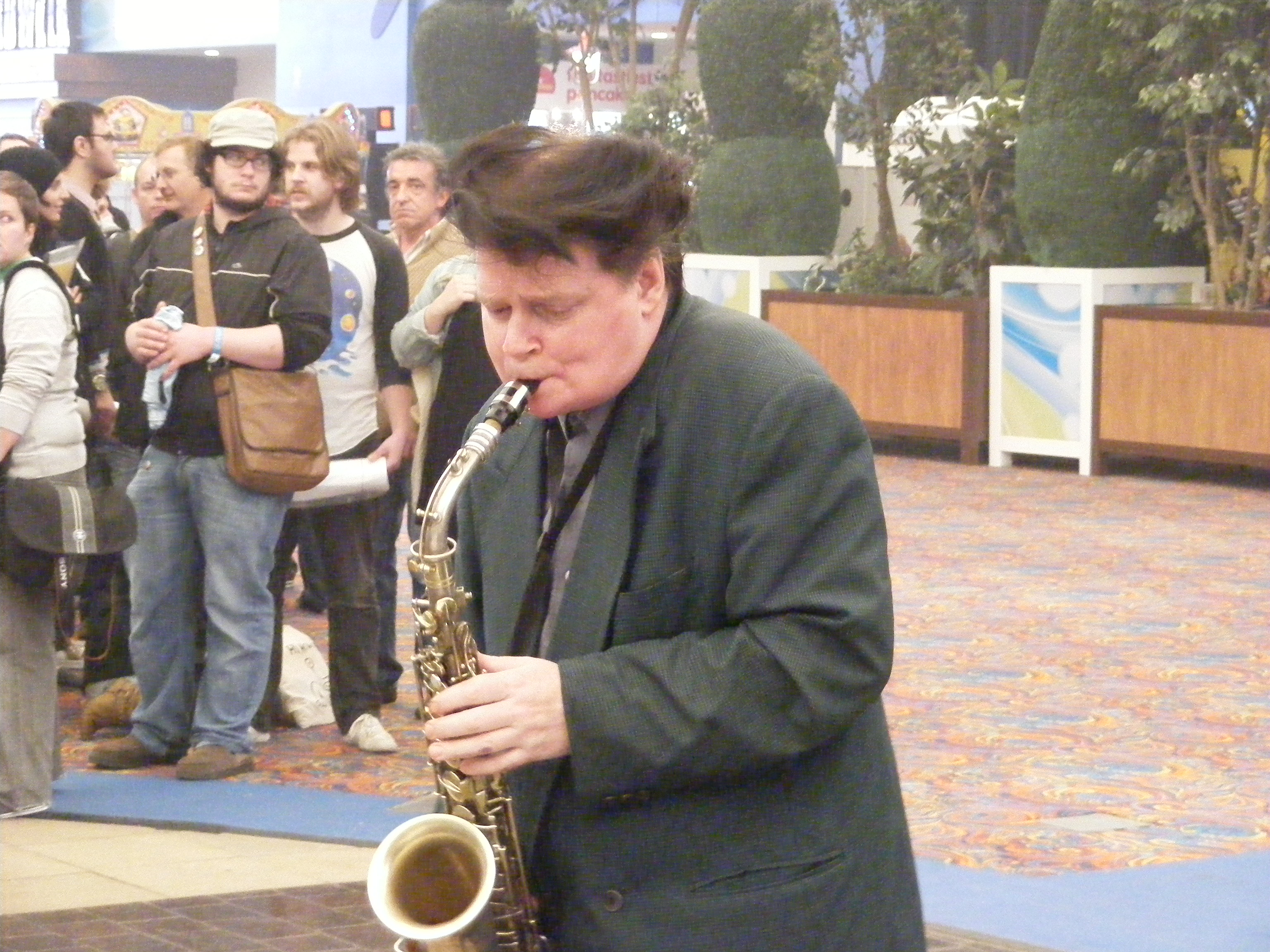 James Chance performing in Minehead, England in 2010